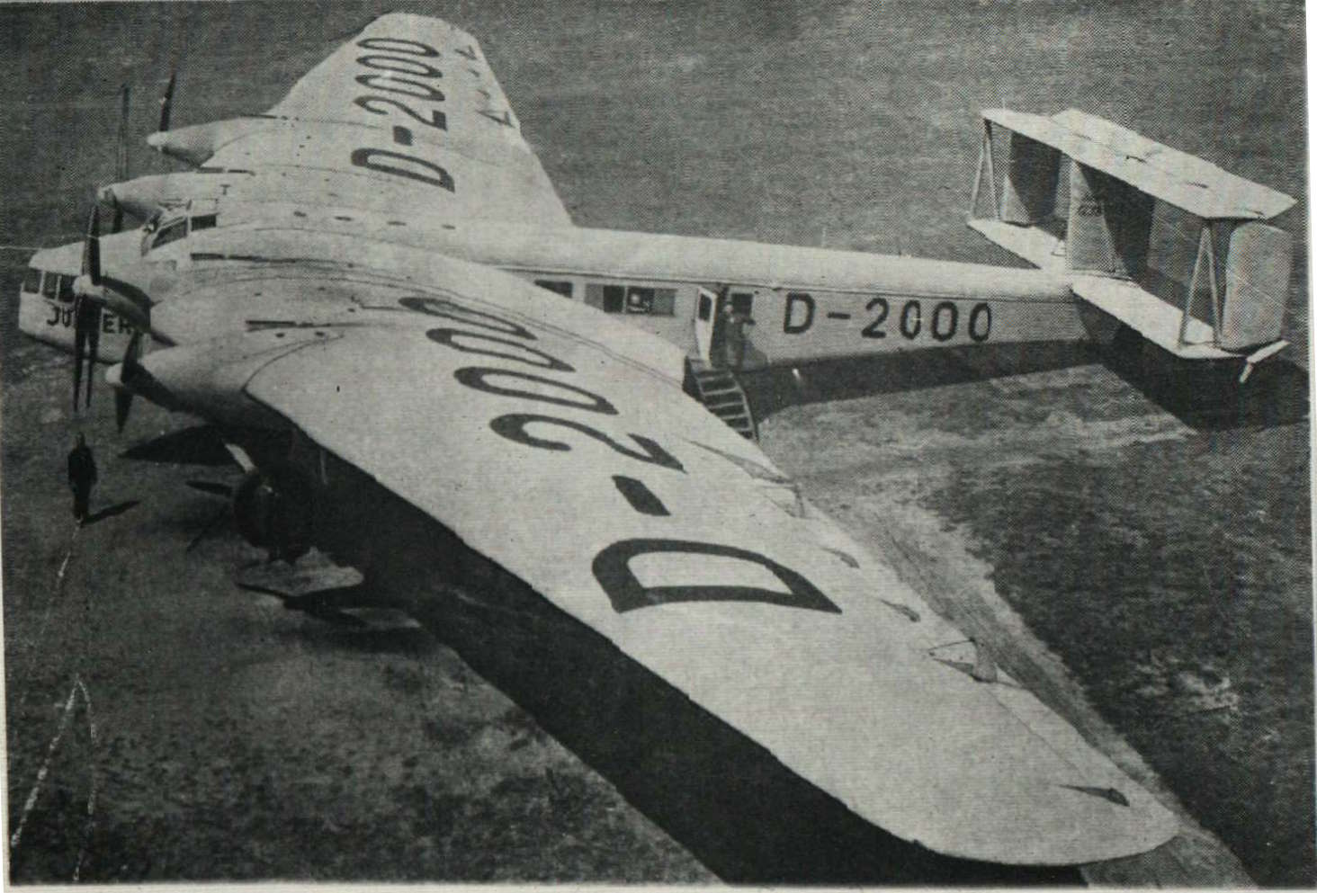 An aircraft (Junkers G 38) probably at Bozhurishte airport near Sofia, Bulgaria. Picture taken between 1927 and 1934.